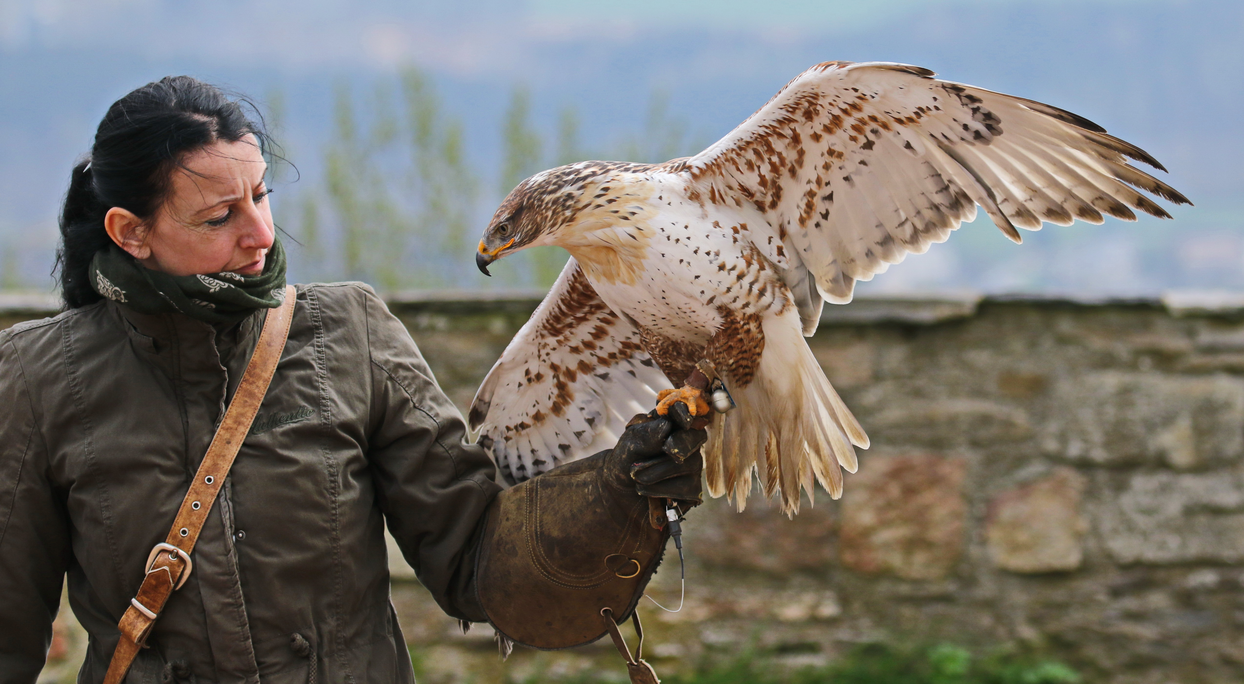 Falconry demonstrations. Ferruginous hawk and falconry yard at Augustusburg Castle in Saxony.